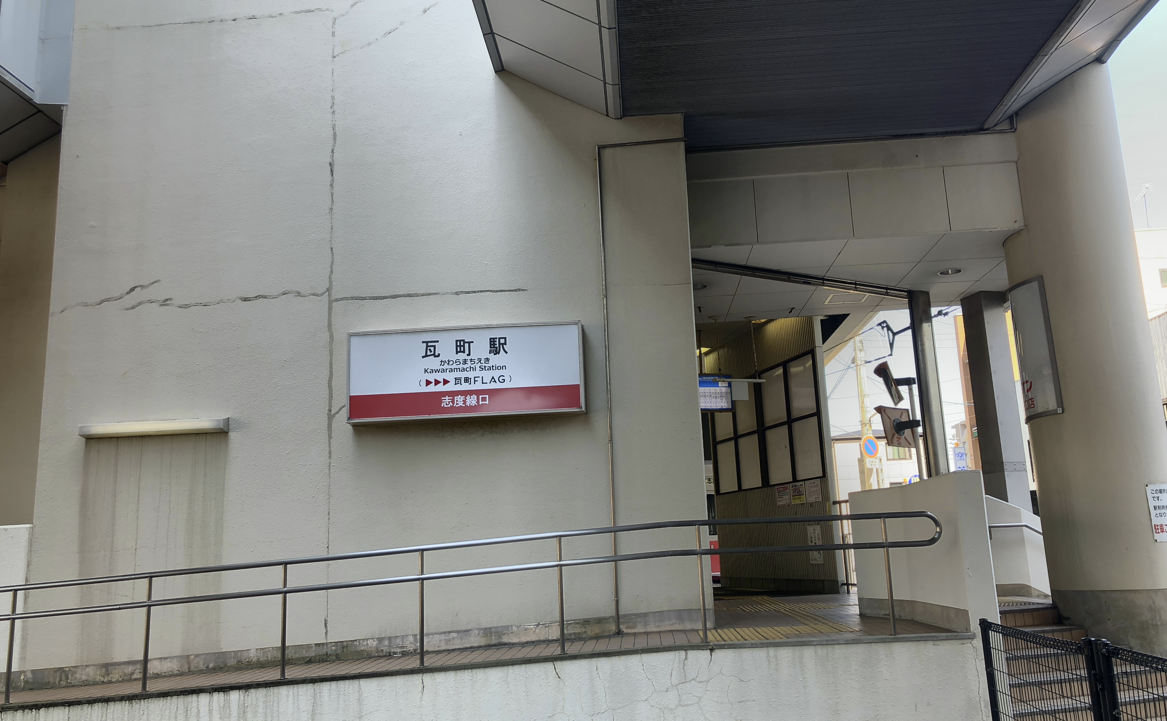 Takamatsu Kotohira Electric Railroad Kawaramachi Station Shidosen-guchi ticket barriers